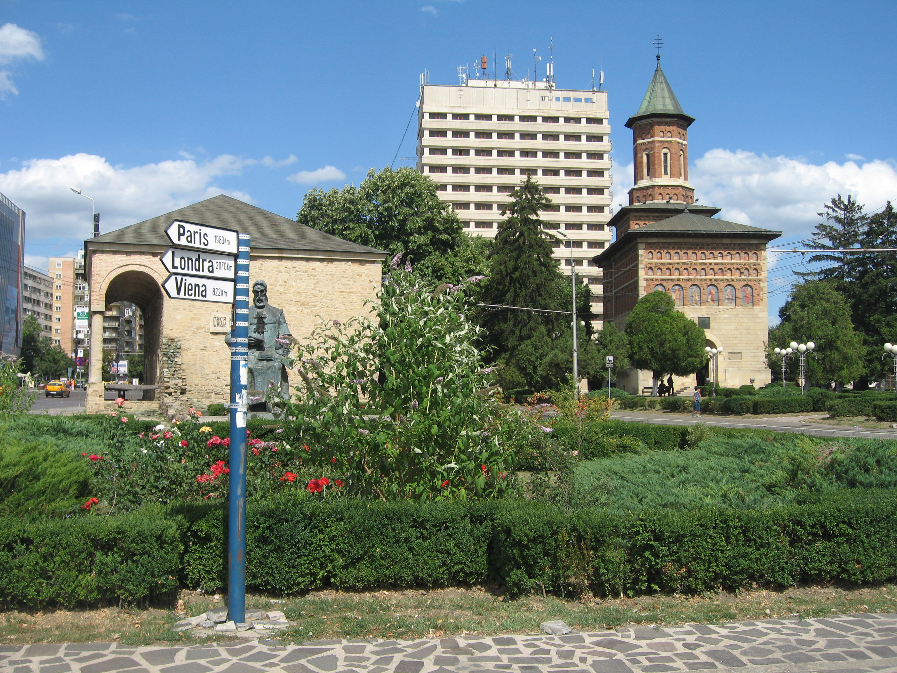 Biserica Sf. Nicolae Domnesc din Iași, România